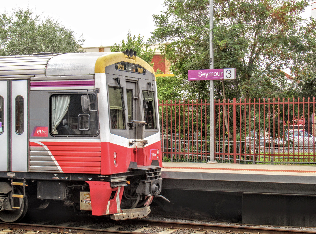 This is a sprinter train at Seymour station.